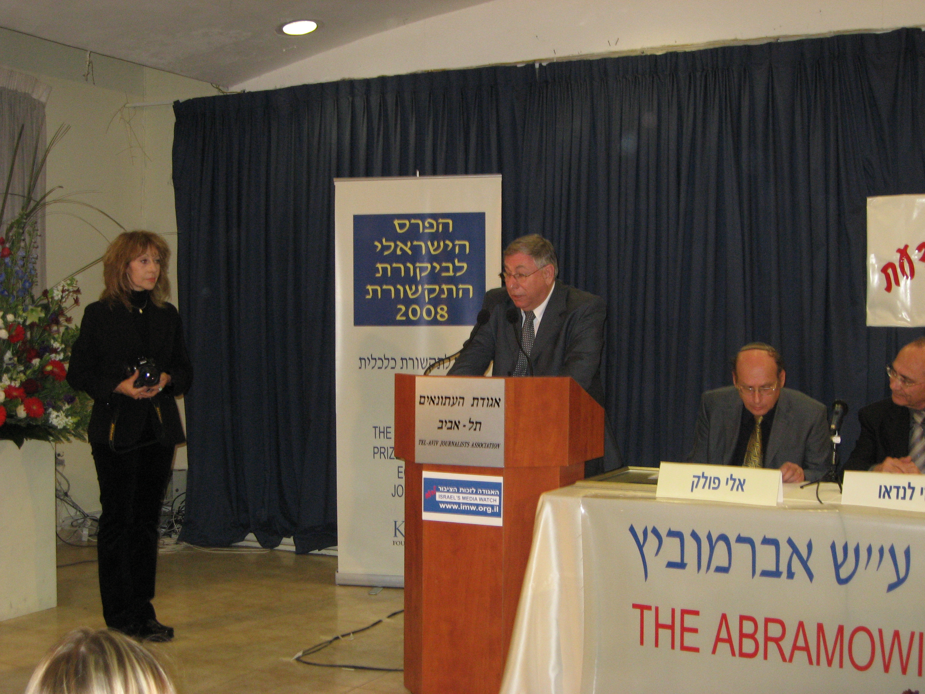 Yevgenia Kravchik, Journalist, the Winner of the Abramowitz Israeli Prize for Media Criticism 2008, at the ceremony for the prize